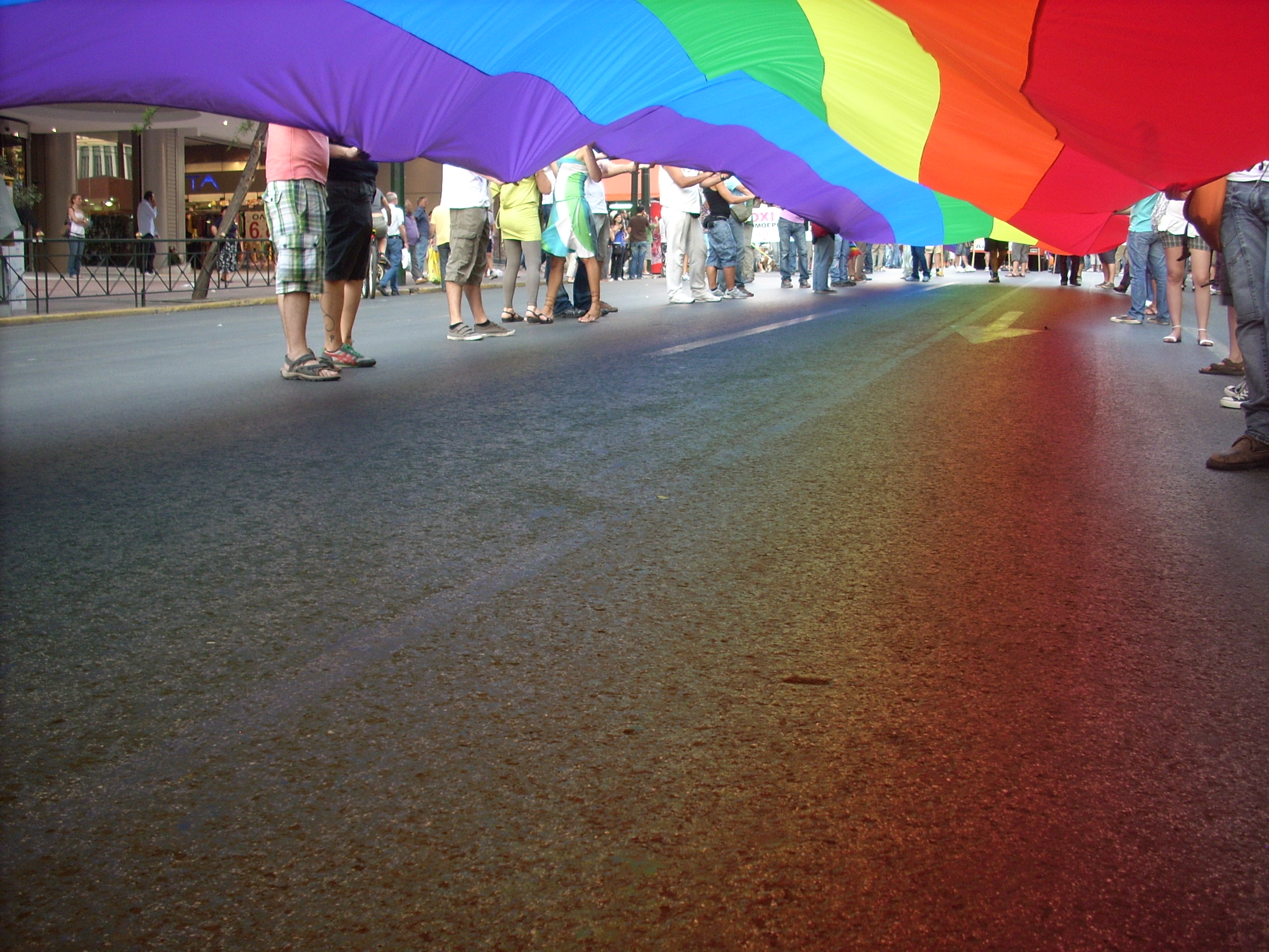 Athens Pride 2009